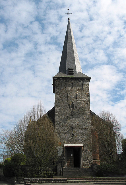 Maurage (Belgium), the Saint John the Baptist church (1420).